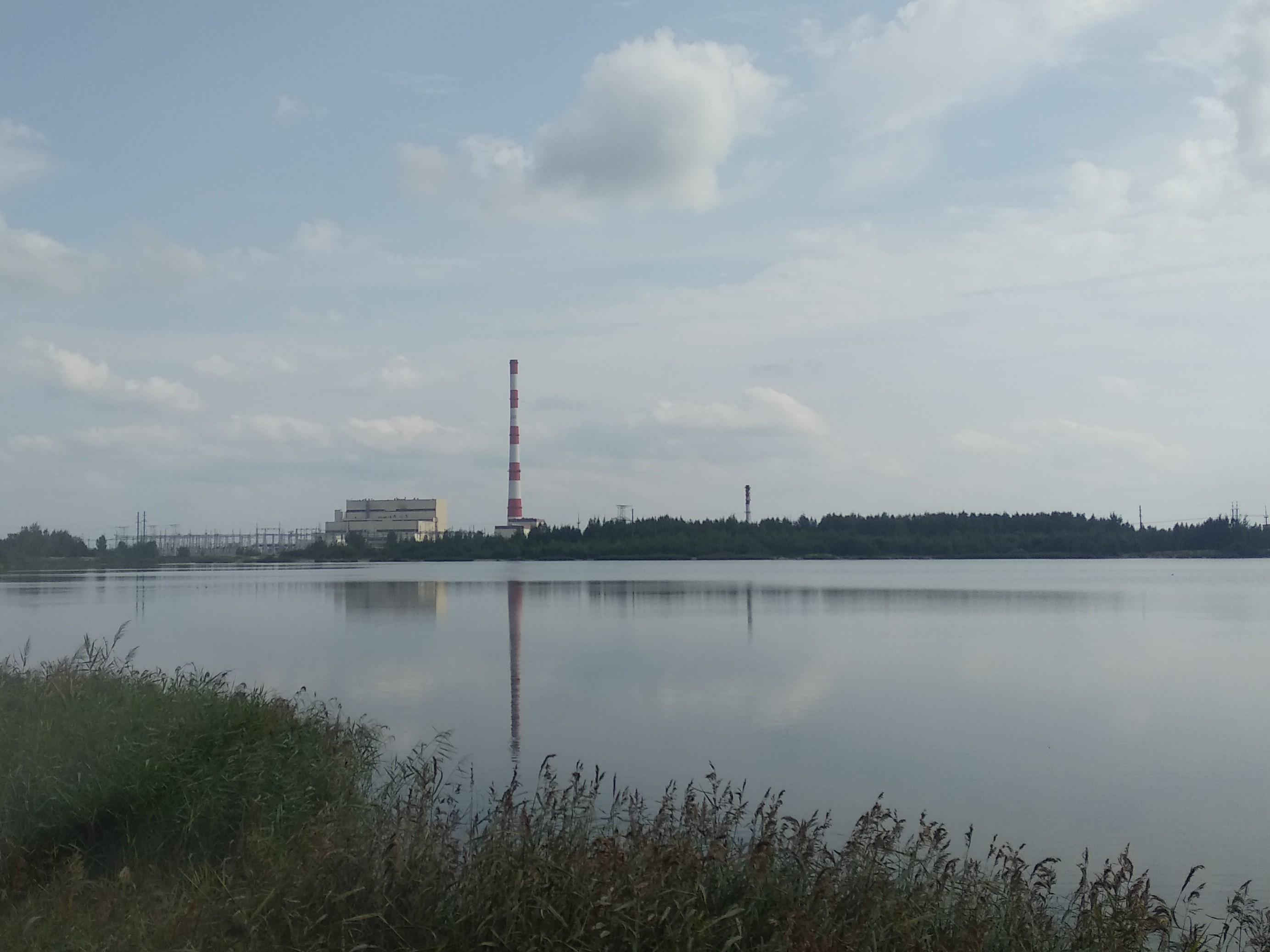 power plant near Minsk